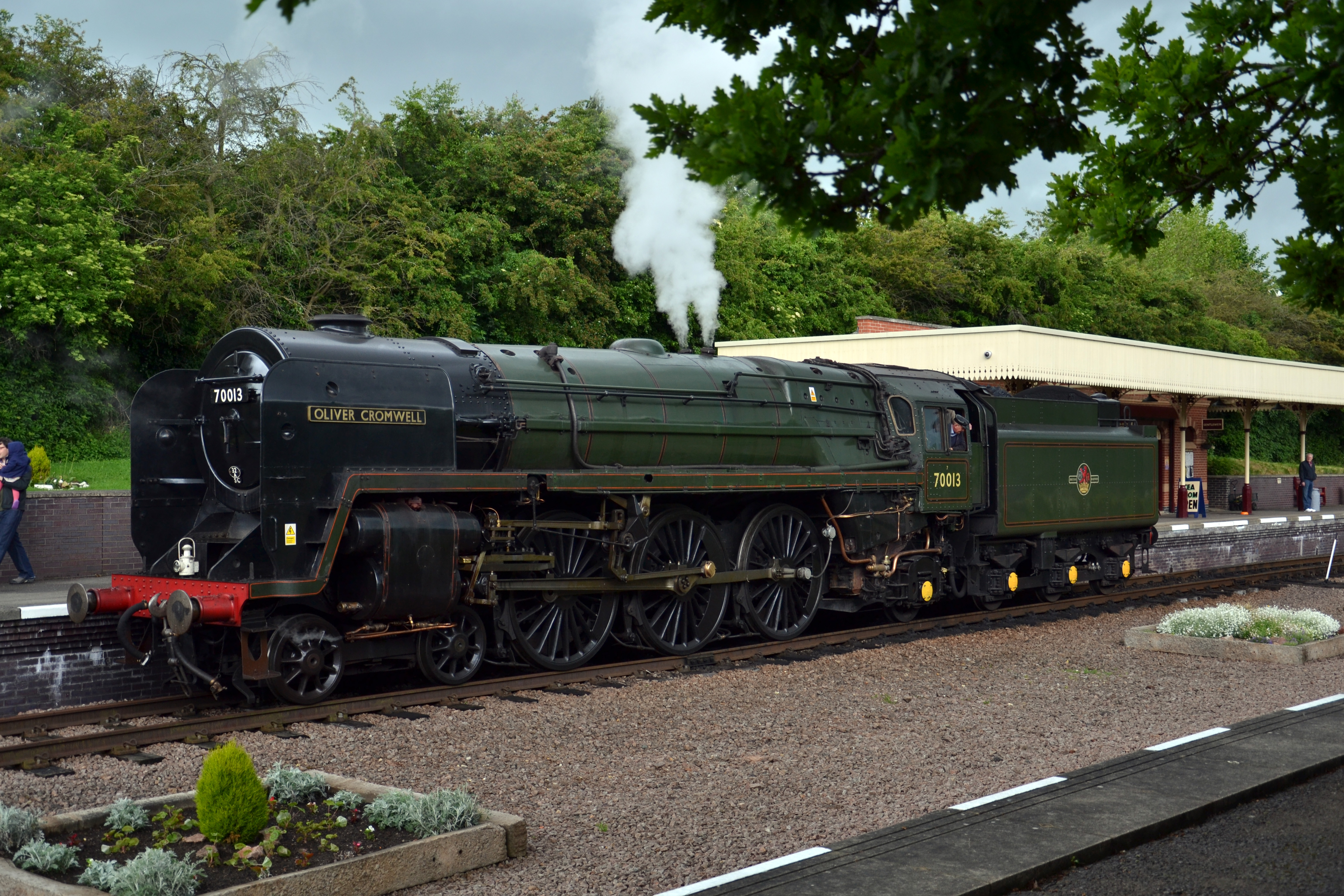 70013 'Oliver Cromwell' Leicester North GCR